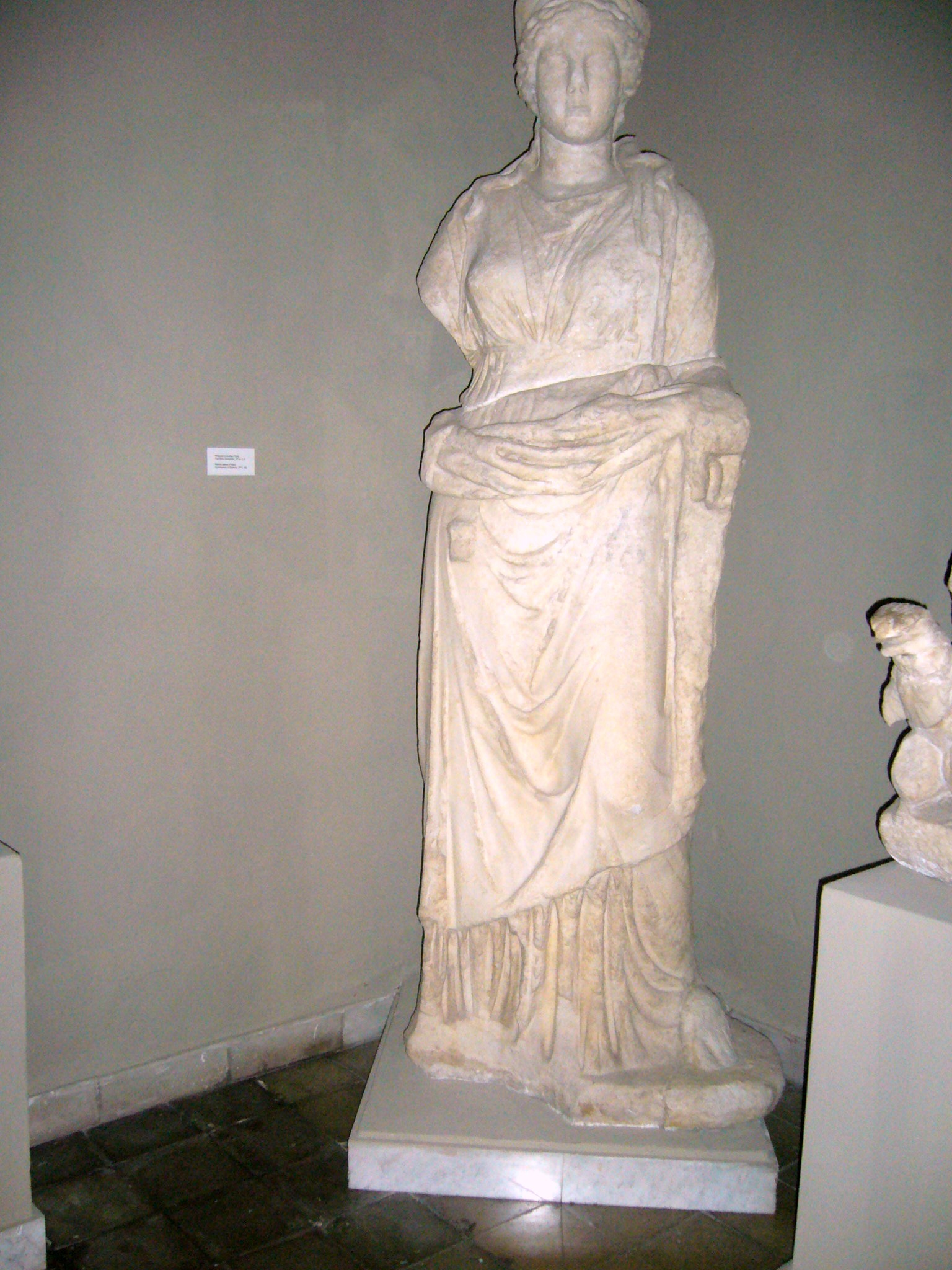 Marble statue of Hera from gymnasium of Salamis - 2nd c. A.D. Archaeological Museum in Nicosia, Cyprus